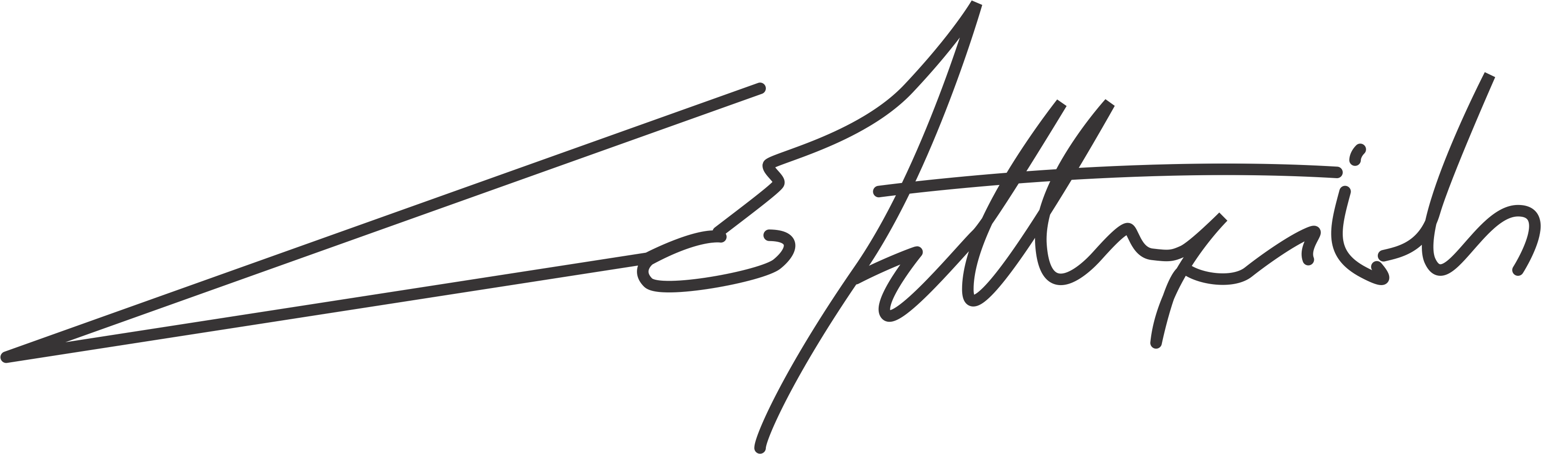 Emerson Fittipaldi autograph.